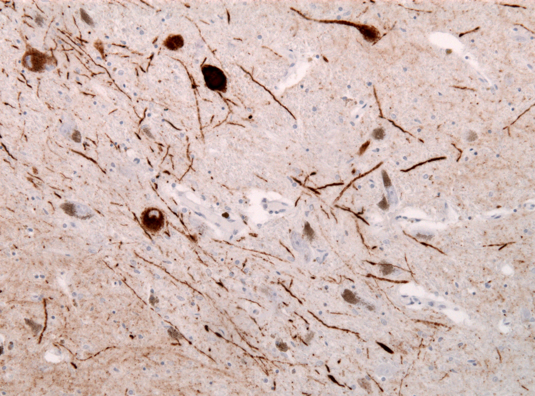 Immunohistochemical staining of Lewy Neurites in a case of Lewy Body Dementia (DLB)